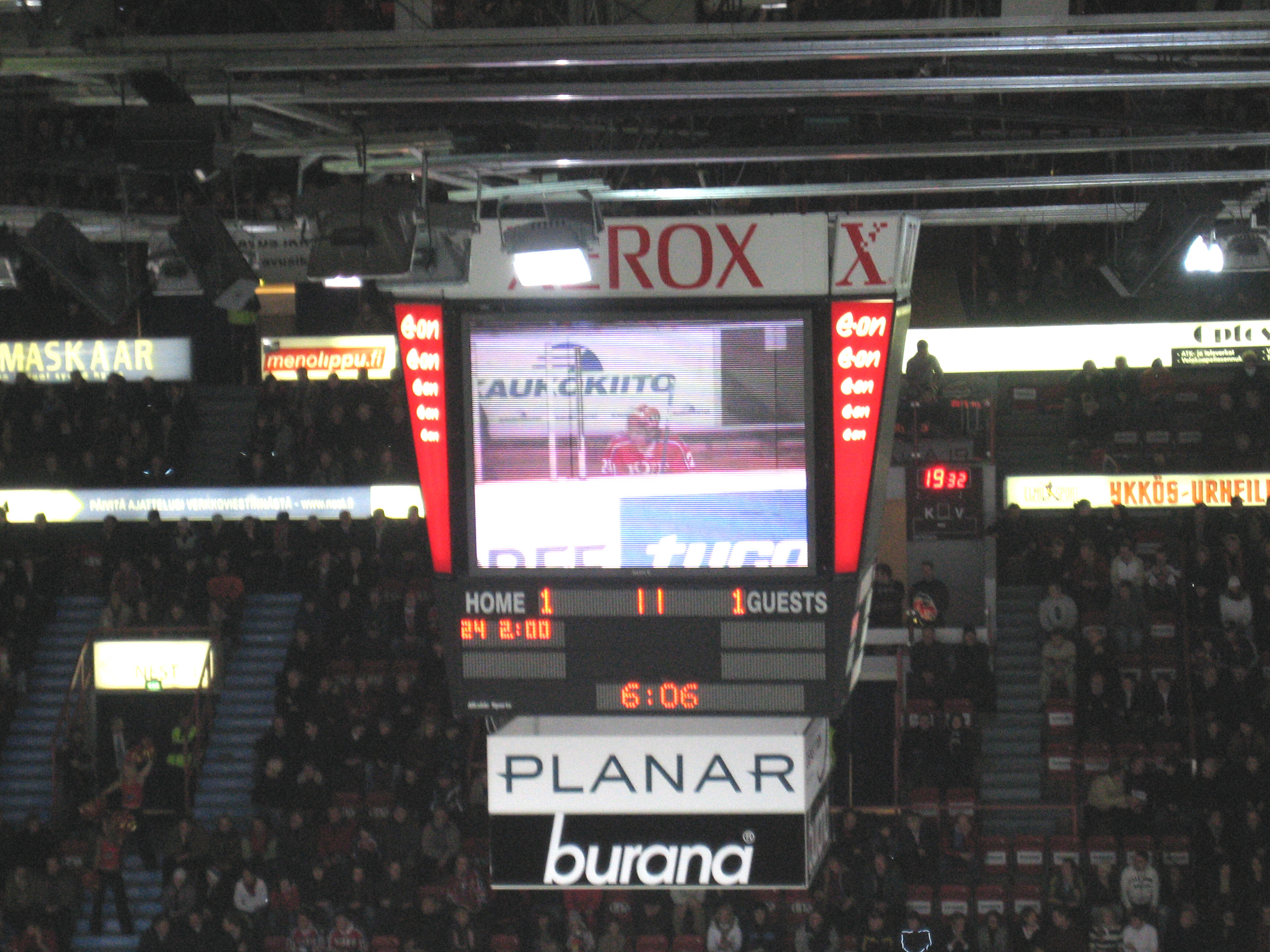 Scoreboard in Helsinki Ice arena, January 2006.